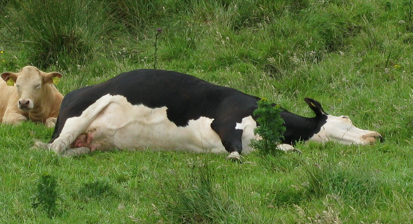 A tipped cow. Taken near the Cliffs of Moher in Ireland.